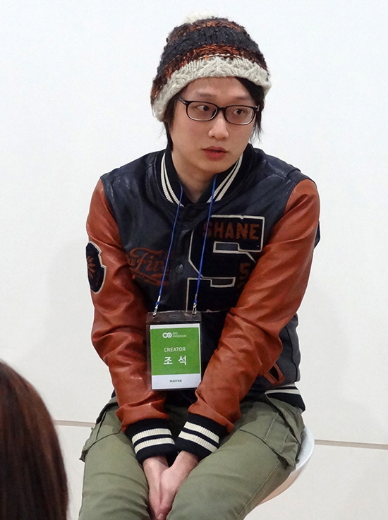 Jo Seok (조석) on March 20, 2013